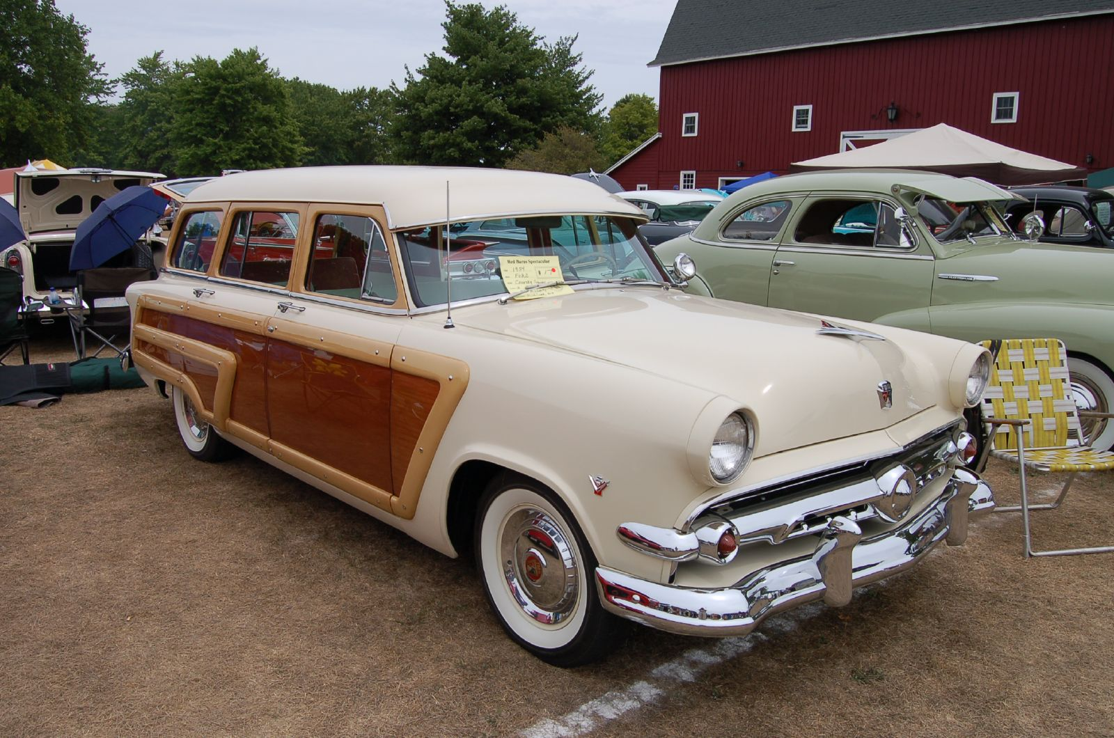 Taken during the 2007 "Red Barns Spectacular" car show at the Gilmore Car Museum, Hickory Corners, Michigan.